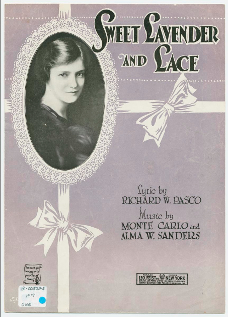 Sheet music cover for the song titled "Sweet Lavender and Lace" with a lavender background and a picture of a young white woman in an oval frame, surrounded by a lace pattern and ribbon bows, by Richard W. Pascoe, Monte Carlo, and Alma Sanders.